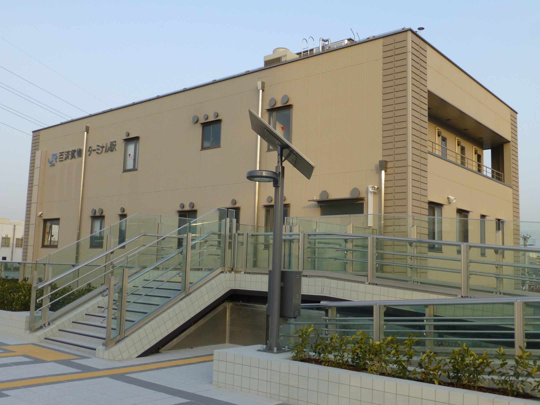 Main building of Kudara Freight Terminal